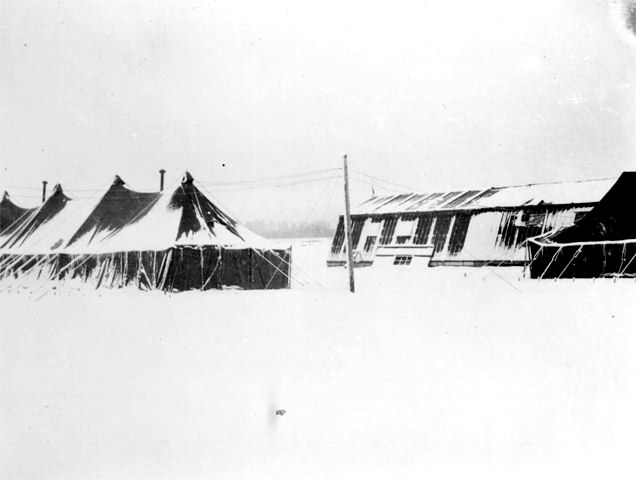 Y-34 Metz Airfield - facilities witer 1944/1945